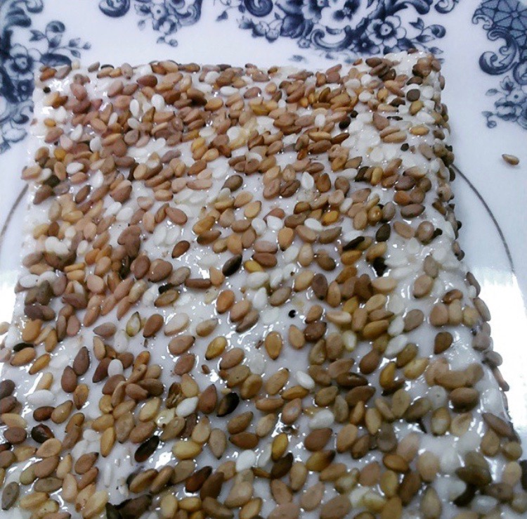 White halva as a dessert during tradicional Strumica Karneval under masks.